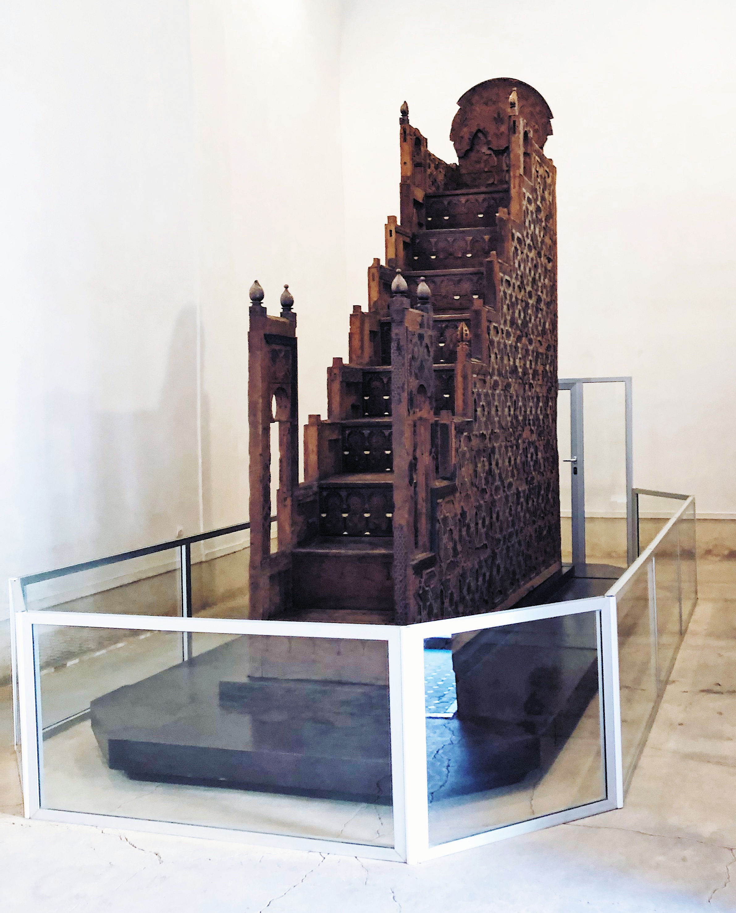 The Almoravid minbar of the Kutubiyya Mosque, produced in Cordoba in 1137 by commission of Amir Ali ibn Yusuf for the main mosque (Ben Youssef Mosque) in his capital of Marrakesh. (Note: This is just a cropped and retouched version of the picture uploaded by another user.)